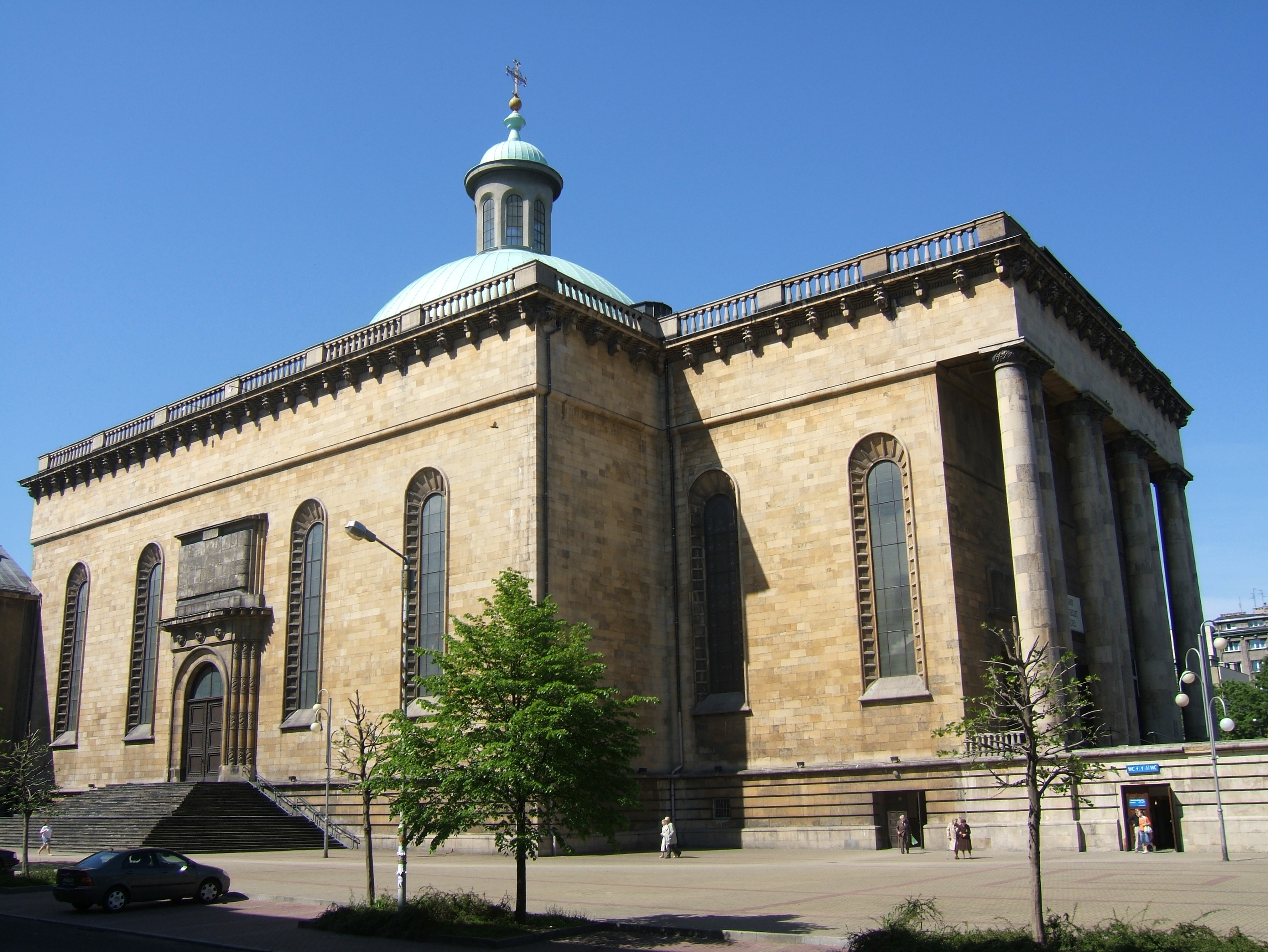 Side-view of the Christ-The-King cathedral of the archdiocese in Katowice. Built from 1932 to 1955.